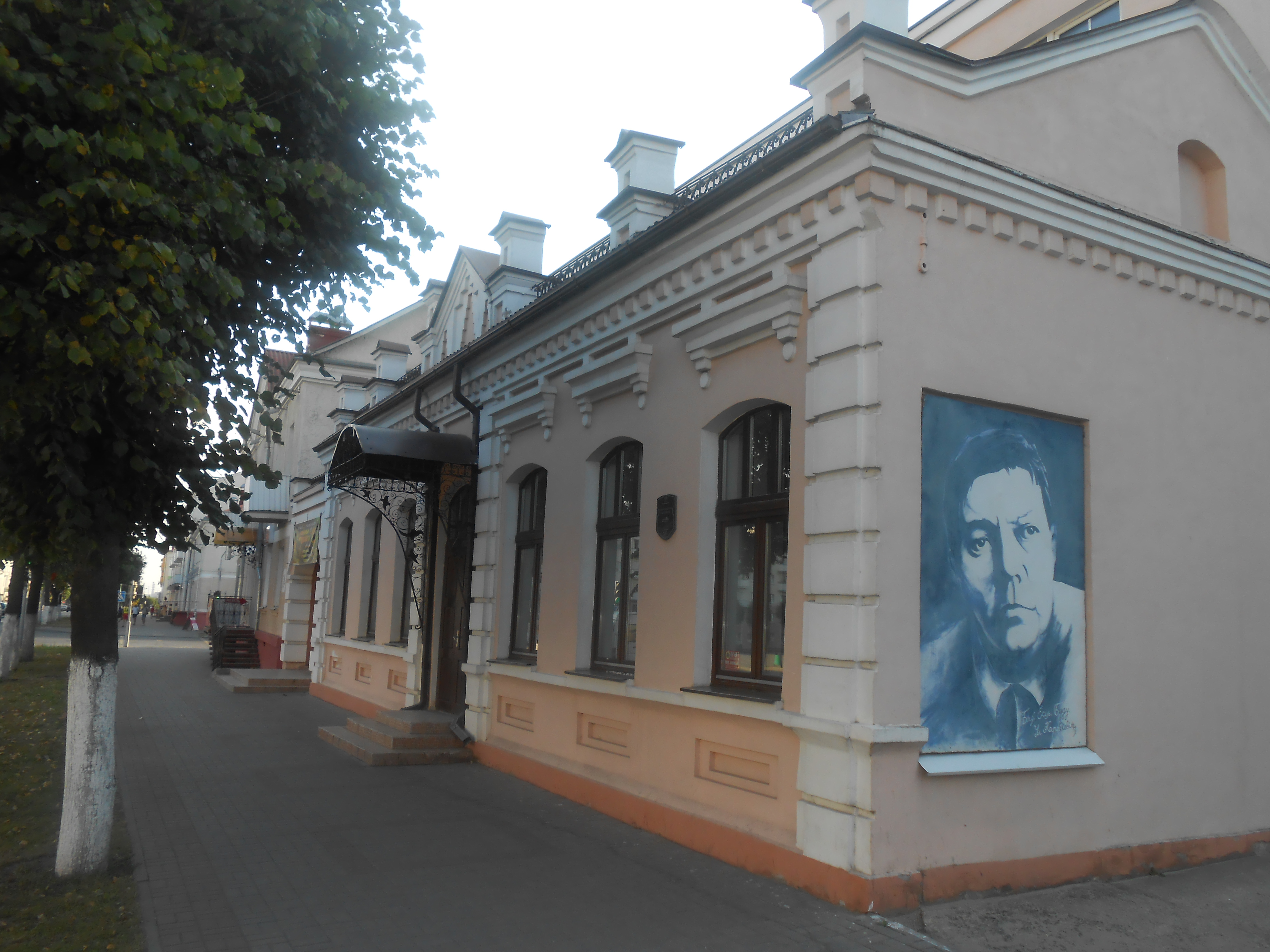 Lenina 26 in Orsha